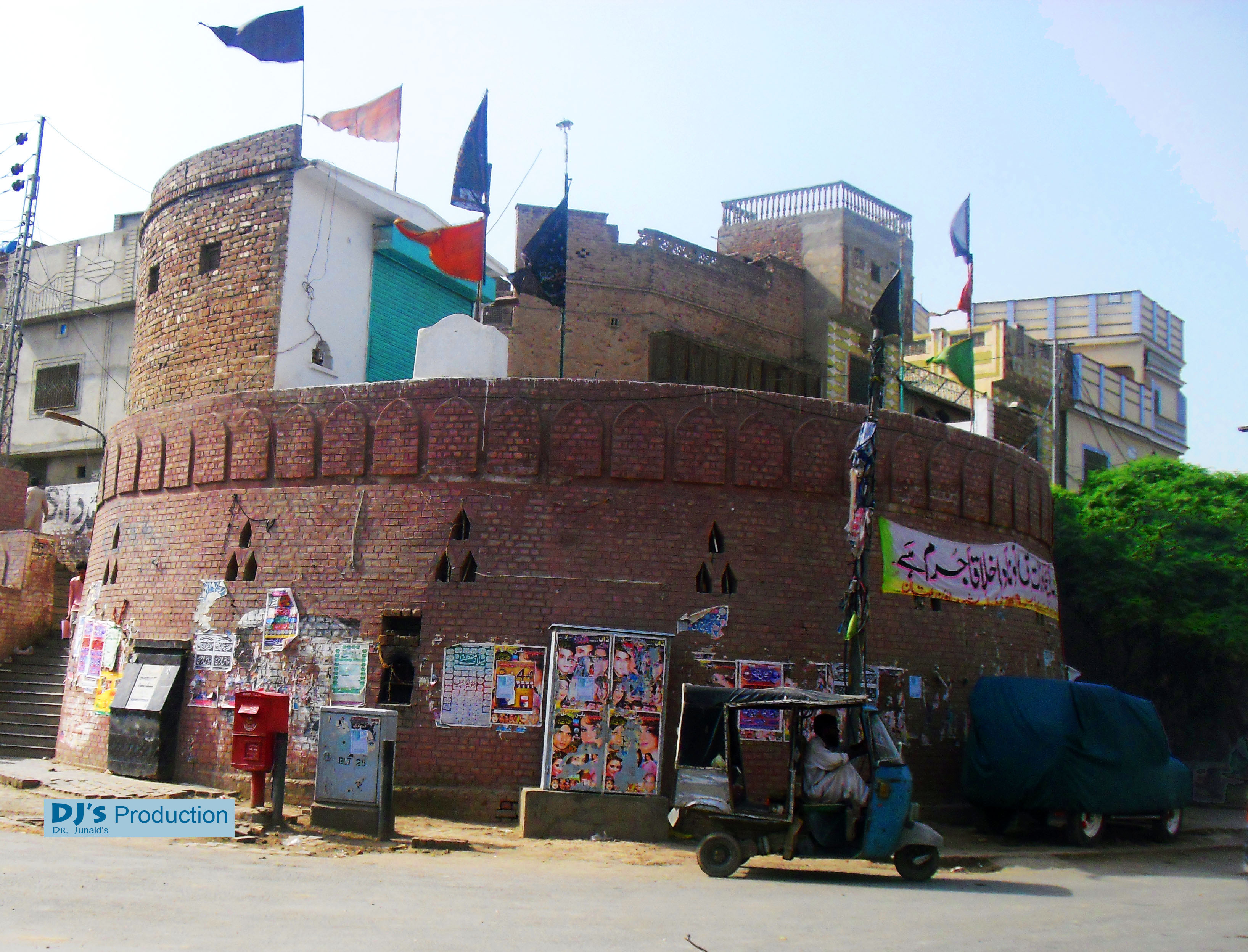 Bloody Bastion This is a photo of a monument in Pakistan identified as the PB-U-43